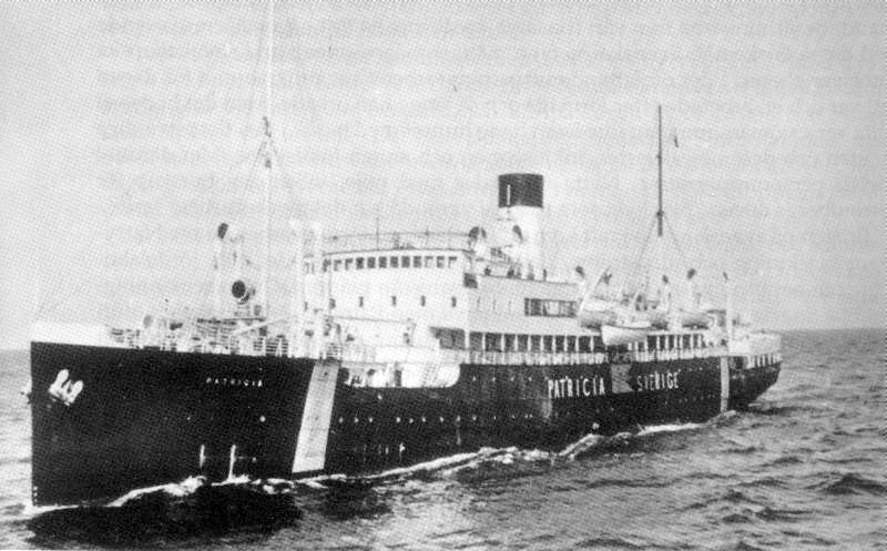 Swedish passenger ship "Patricia" on voyage from Gothenburg to La Spezia in mars 1940, with nearly 500 persons onboard. The lifeboats are ready to be deployed.